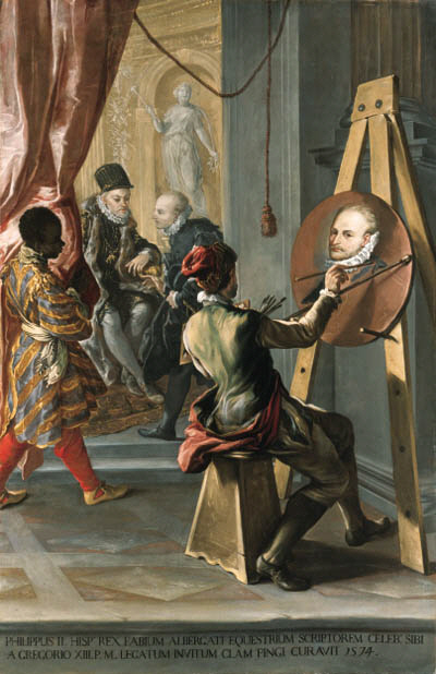 Double portrait, showing an incident where the diplomat Fabio Albergati met Philip II of Spain, who had an artist secretly paint his portrait.